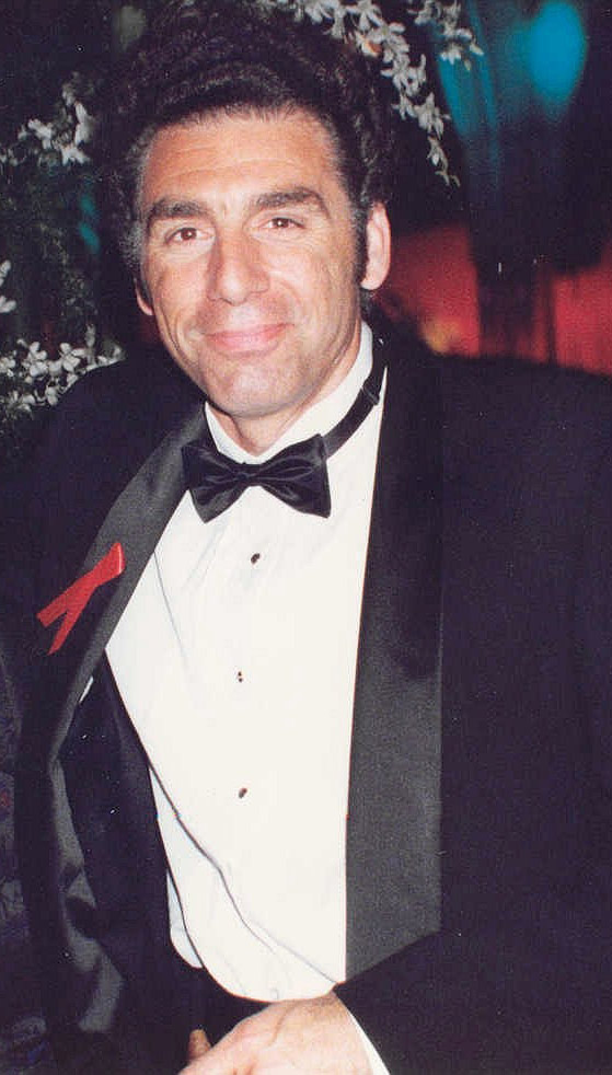 Photo of actor Michael Richards at the 1993 Emmy awards.